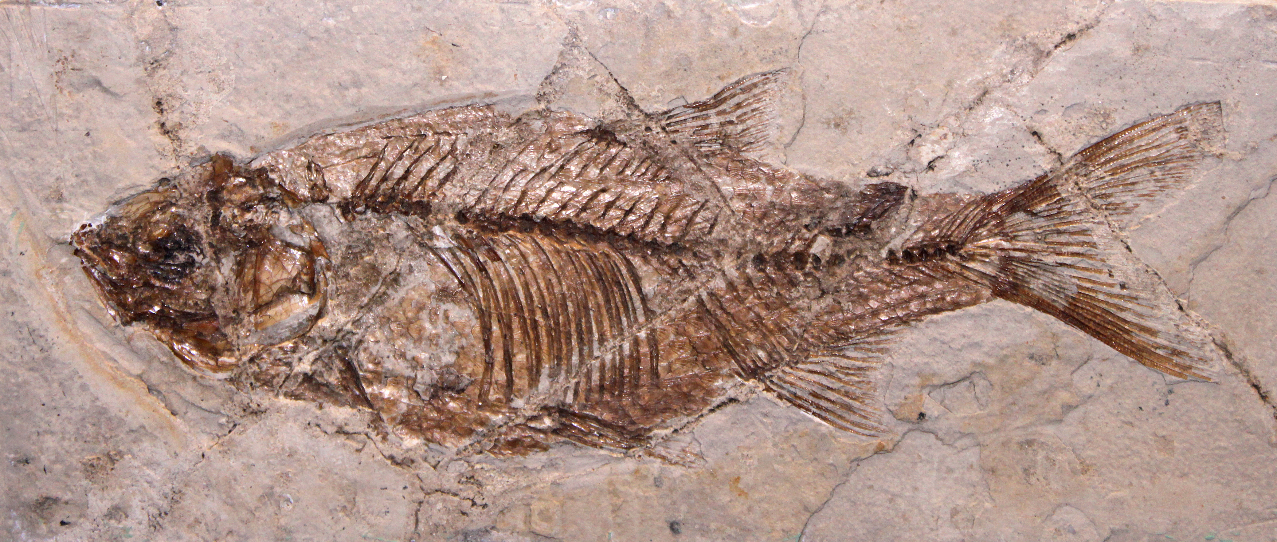 Leuciscus oeningensis, Cyprinidae, Oehningen Dace; Miocene, Öhningen layers, Öhningen, Germany; Staatliches Museum für Naturkunde Karlsruhe, Germany.